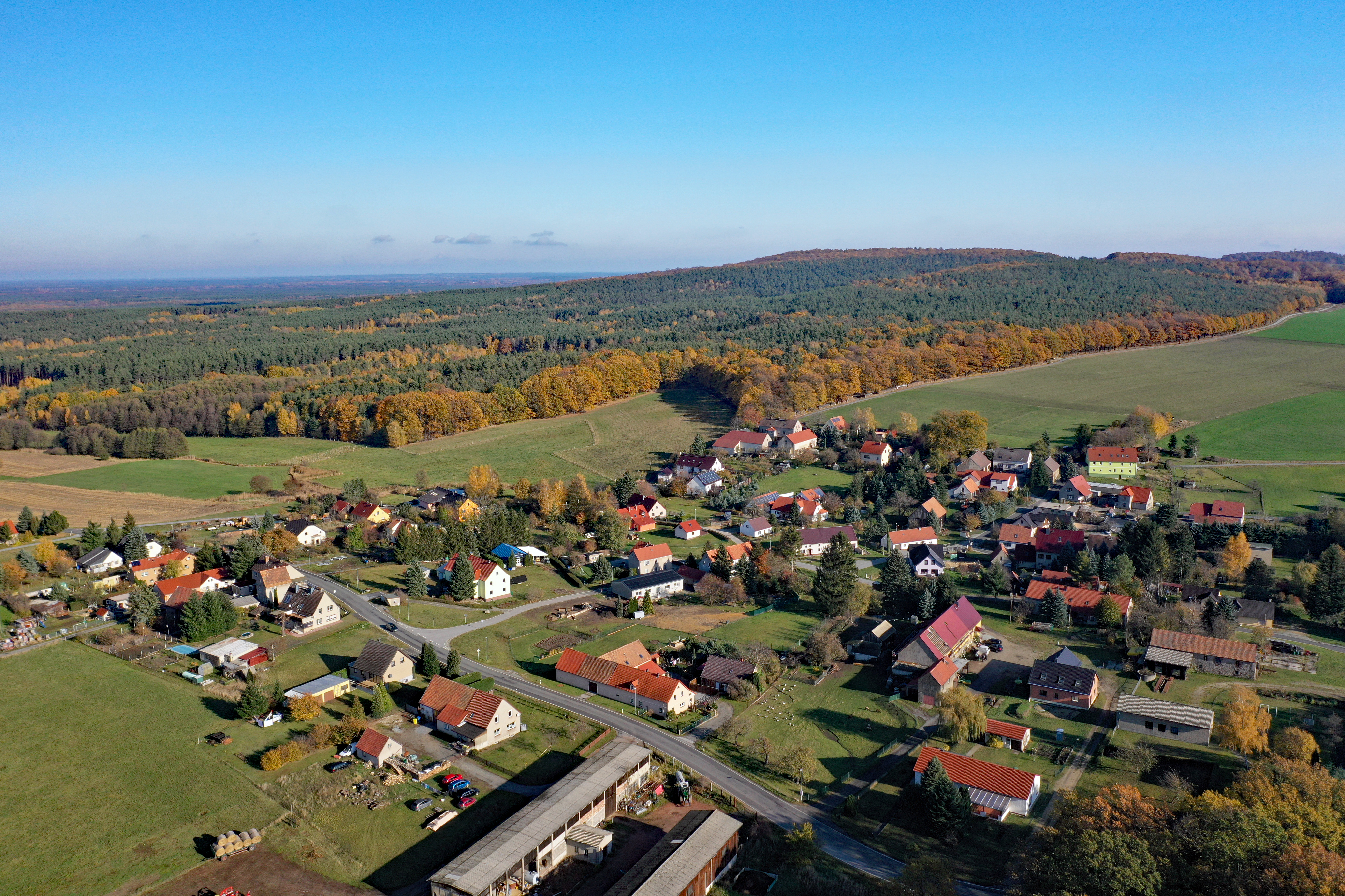 Ober Prauske (Hohendubrau, Landkreis Görlitz, Saxony, Germany) Hornjoserbsce: Powětrowy wobraz Hornich Brusow